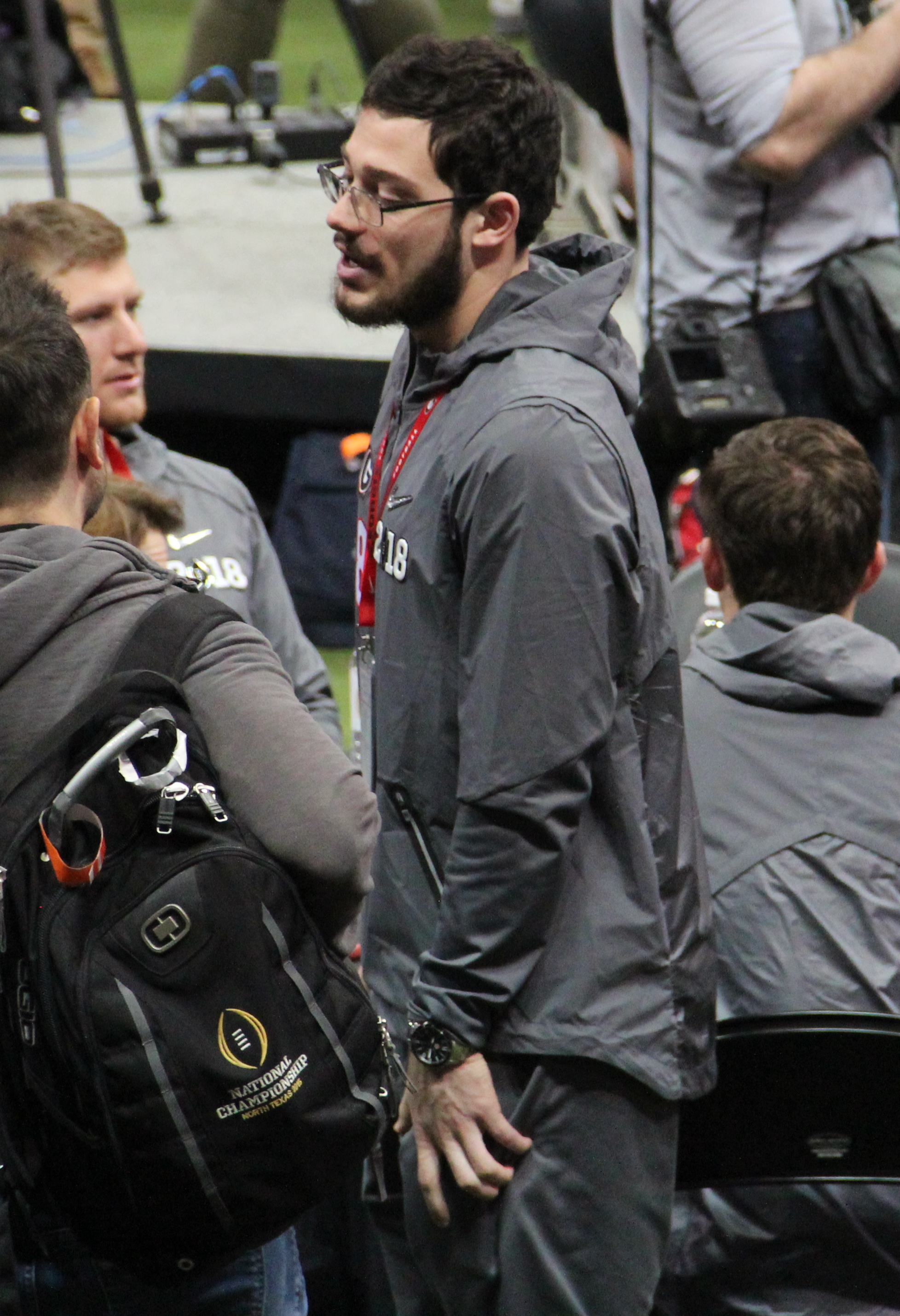 Rodrigo Blankenship speaking to the media